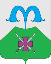 Coat of arms of Azovskaya, Krasnodar Krai, Russia.